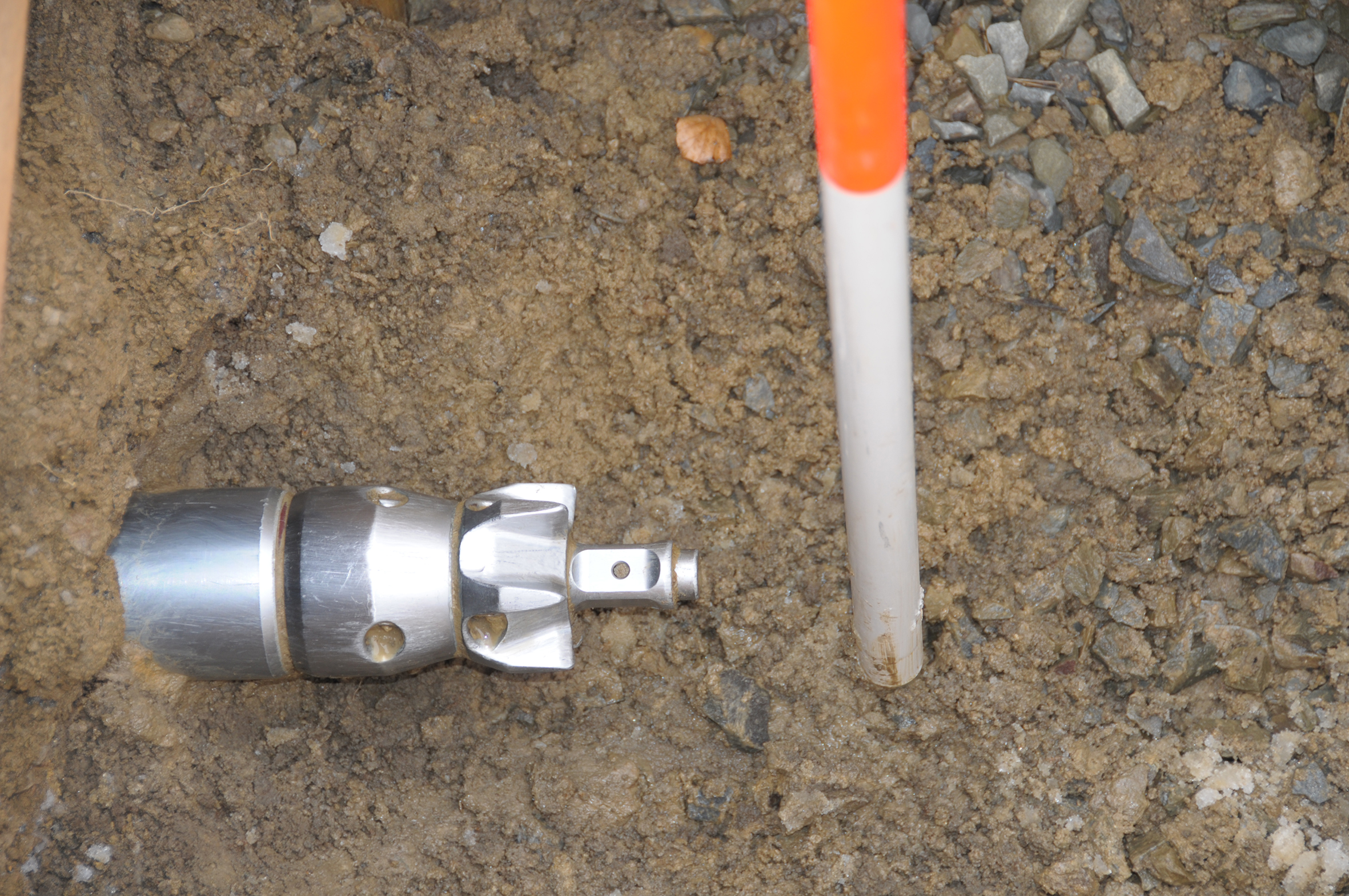 Soil displacement hammer GRUNDOMAT on arrival at the target pit